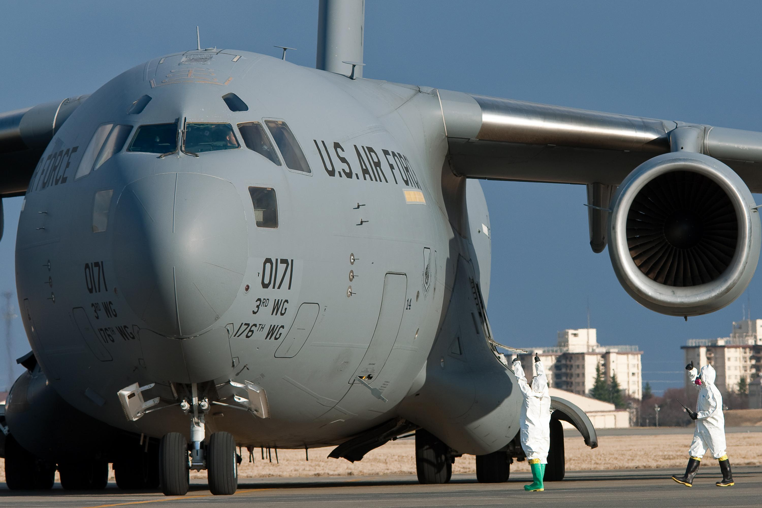 YOKOTA, Japan (March 17, 2011) Senior Airman Eva Gaus, left, and Senior Airman Jonathan Jones, right, both assigned to 374th Civil Engineer Squadron, indicate all clear to the pilot after checking beta and gamma radiation at Yokota Air Base. A C-17 Globemaster III aircraft transported troops from the Japan Ground Self-Defense Force and vehicles from Okinawa for relief efforts. (U.S. Navy photo by Yasuo Osakabe/Released)